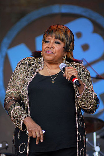 A photograph of Denise LaSalle performing at the 2009 Monterey Blues Festival.